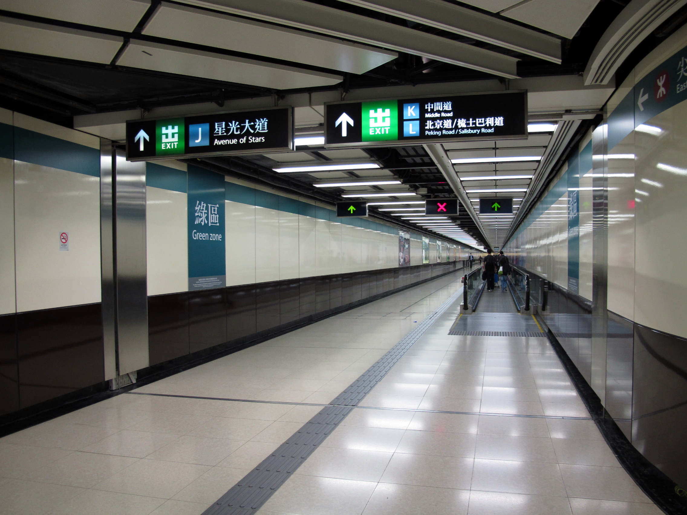 MTR East Tsim Sha Tsui station subway